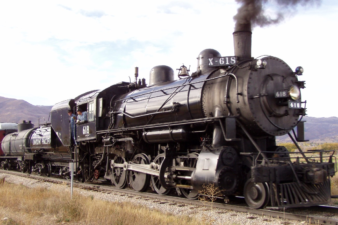 The Union Pacific 618 at Heber Valley Historic Railroad. Photo by Evan Jennings, Oct, 2004.